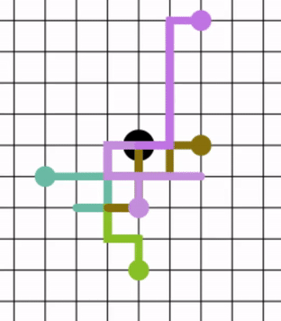 Crop of the final frame of File:Random_Walk_Simulator.gif